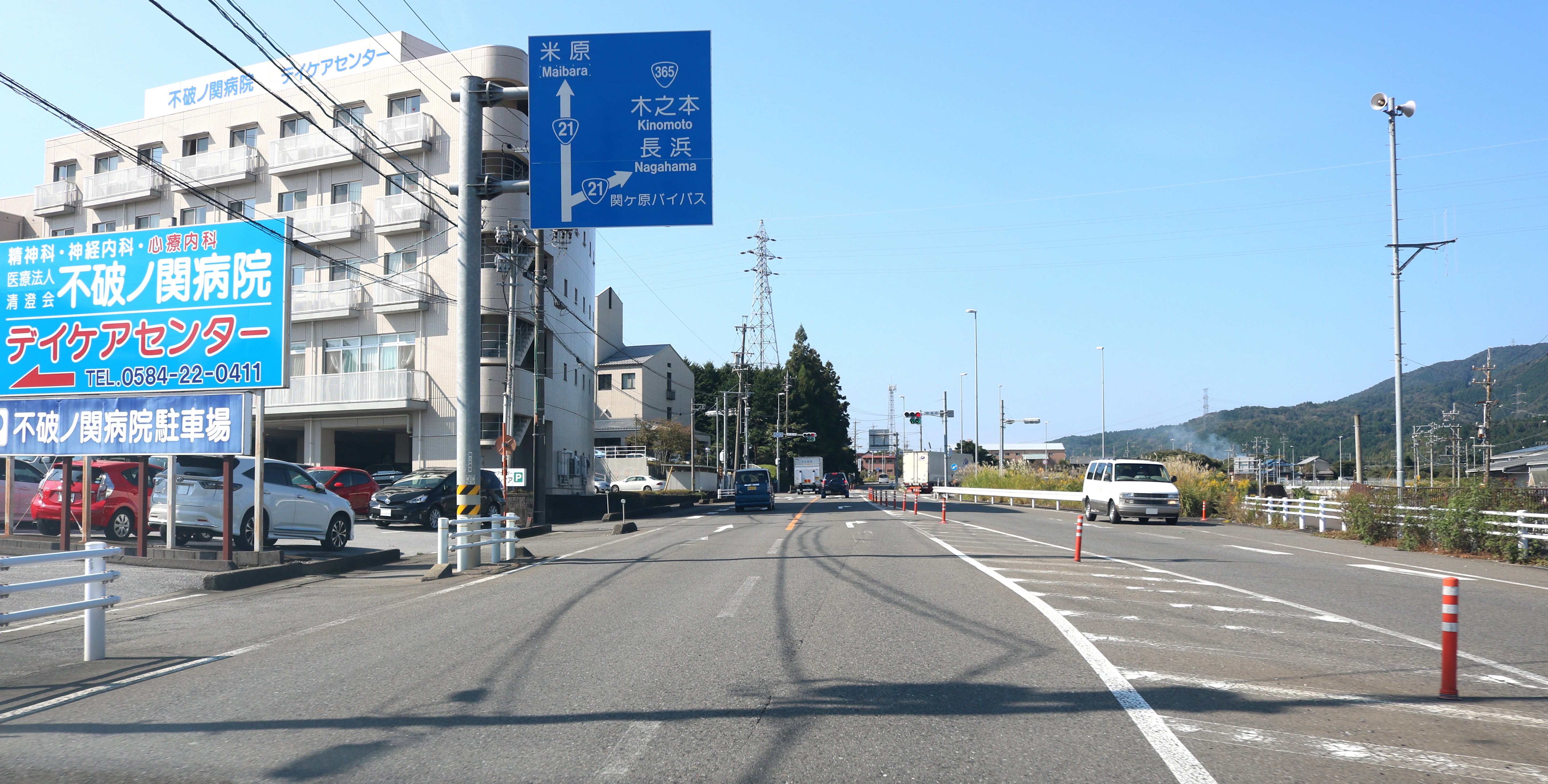 Route 21 and Sekigahara Bypass in Tarui, Gifu Prefecture, Japan. Canon EOS Kiss X8i